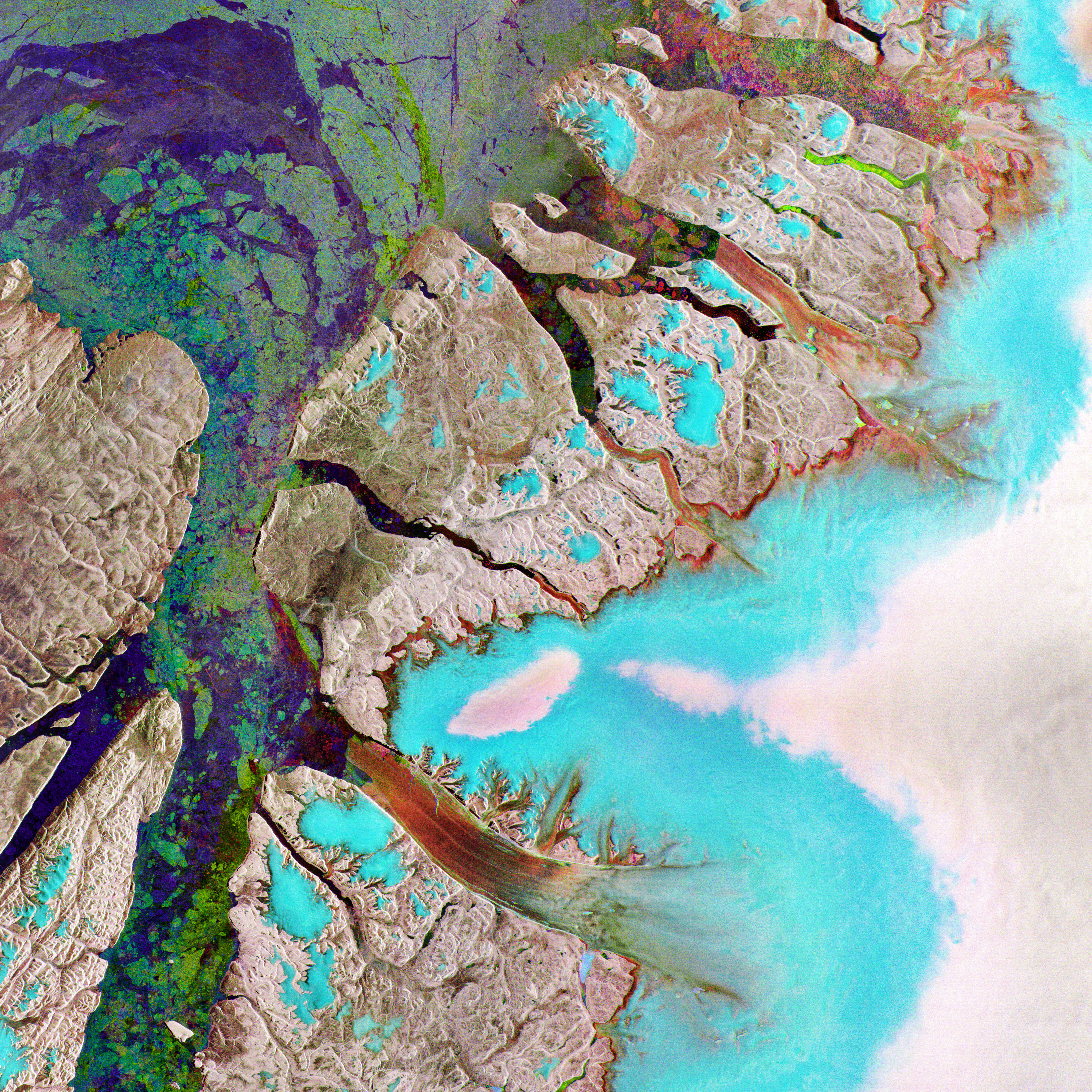 Envisat radar image featuring the northeastern tip of Ellesmere Island (left) in the Canadian Arctic and northwestern Greenland (right) – the world’s largest island. The water (indicated by purple and green colours) pictured in the lower part of the image is Nares Strait. The northernmost part of Nares Strait is the Robeson Channel, which empties into Lincoln Sea (upper left corner of image), part of the Arctic Ocean. The aqua blue and white-coloured areas on the right side of the image show a portion of the Greenland Ice Sheet, the second largest concentration of frozen freshwater on Earth after the Antarctic Ice Sheet. In reddish colours, the Northern Hemisphere's longest-floating glacier, Petermann, can be seen stretching across the centre of the lower part of the image and emptying into Nares Strait. There is no colour in a standard radar image because they represent surface backscatter rather than reflected light. This composite is made up of three Advanced Synthetic Aperture Radar (ASAR) images acquired on different dates, with separate colours assigned to each acquisition to highlight differences between them: green relates to an acquisition on 29 May 2008, red to one on 7 August 2008 and blue to one on 16 October 2008.